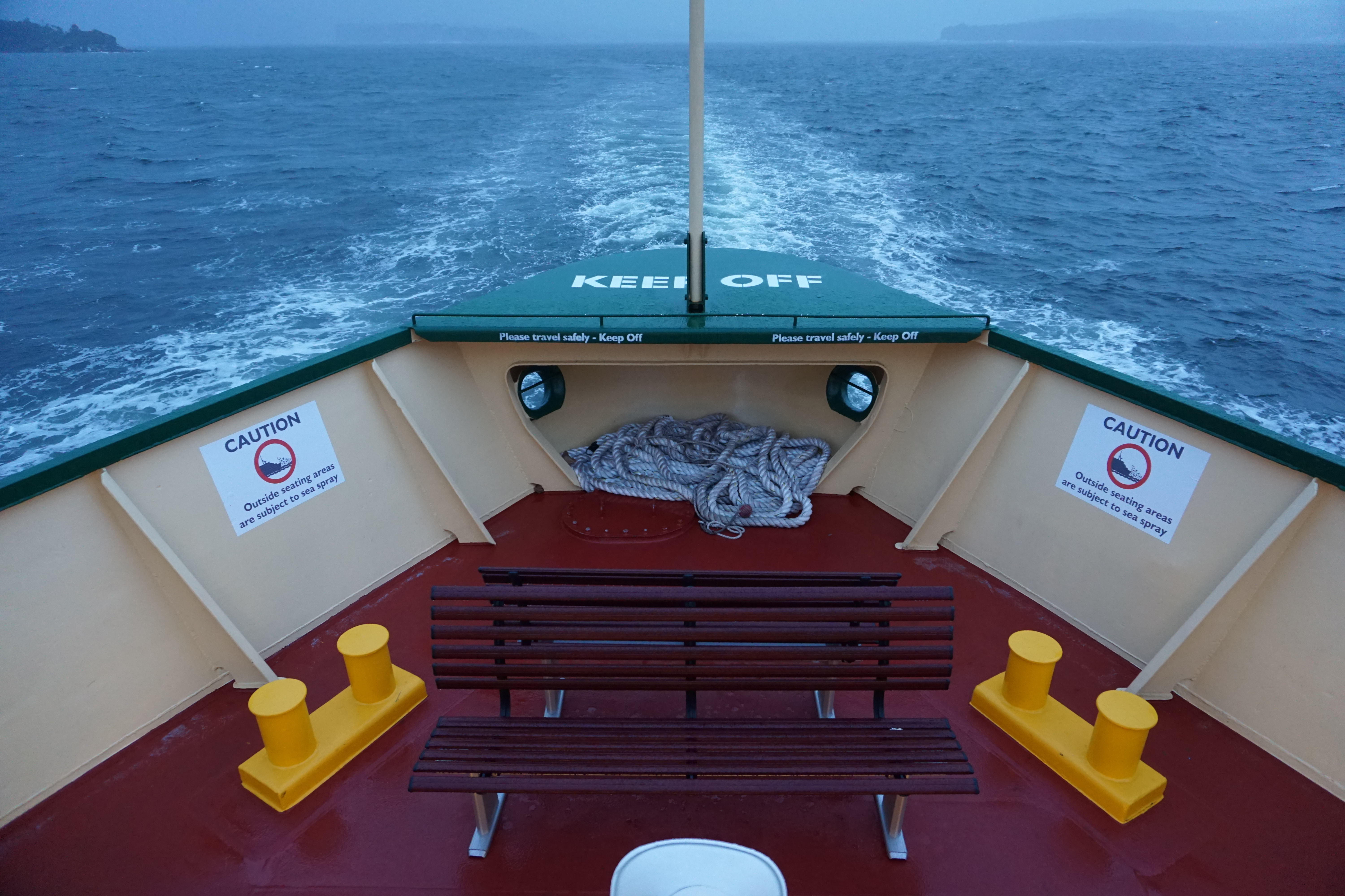 Manly Ferry at dawn